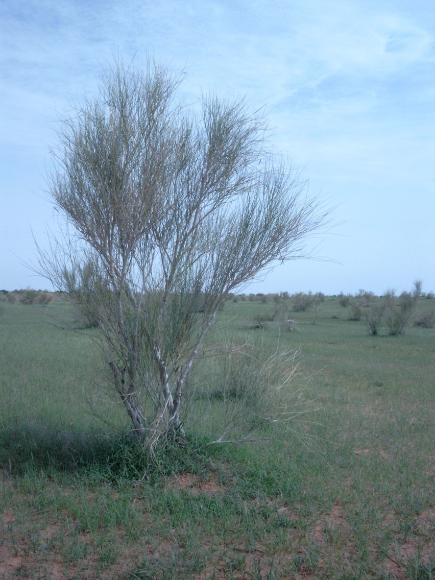 Leptadenia pyrotechnica (Asclepiadaceae, now Apocynaceae) on a dune near Oursi, Burkina Faso.